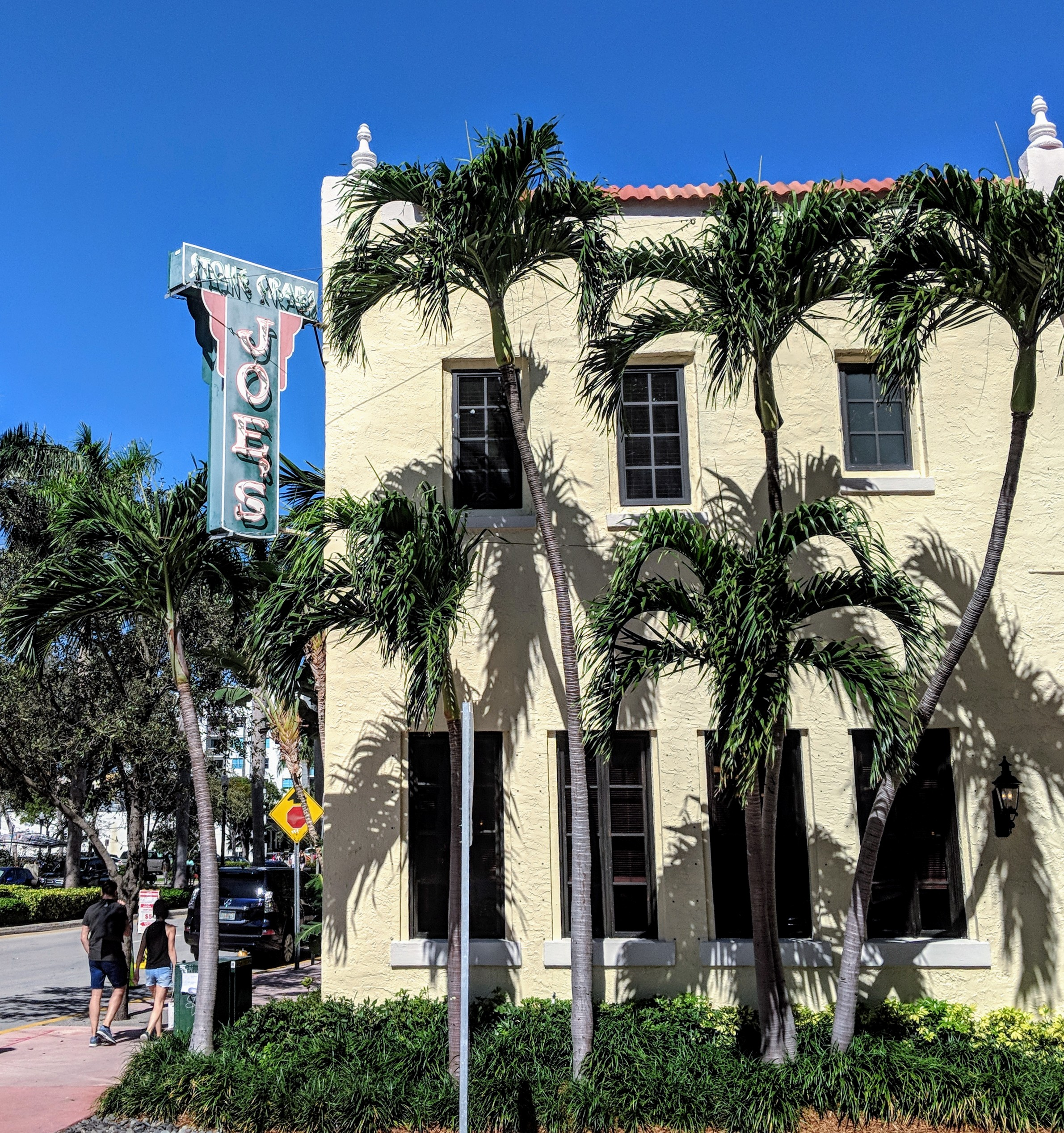 Joe's Stone Crab, a restaurant in Miami Beach, Florida. Photo by Jim Heaphy.